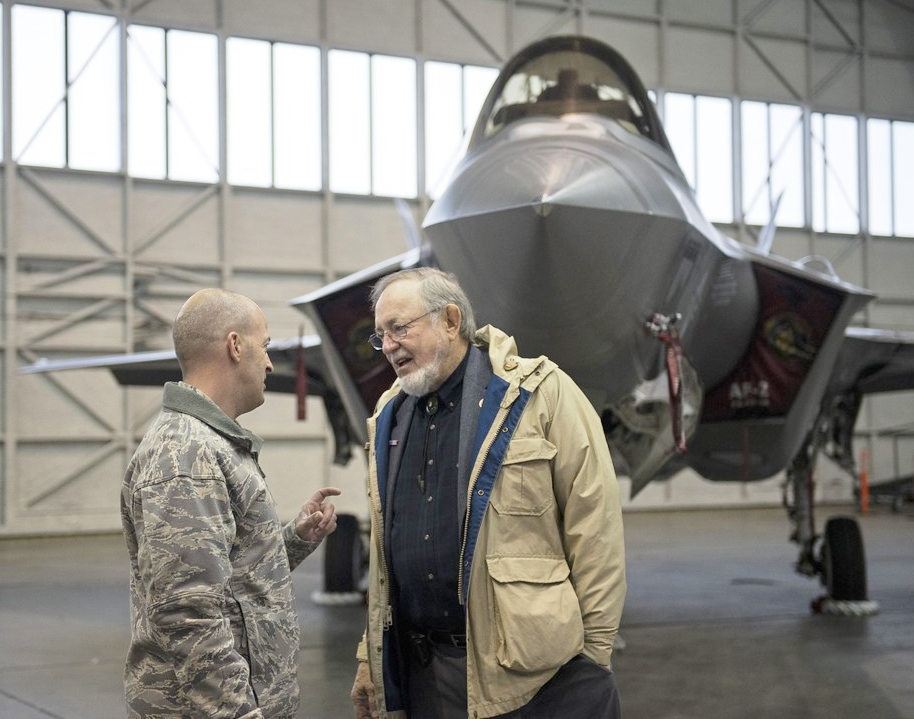 U.S. Air Force Chief Master Sgt. Brent Sheehan, the 354th Fighter Wing command chief, speaks with U.S. Representative Don Young, Oct. 17, 2017, at Eielson Air Force Base, Alaska. Alaskan community leaders visited the installation for the F-35 Community Showcase. (U.S. Air Force photo by Airman 1st Class Isaac Johnson)